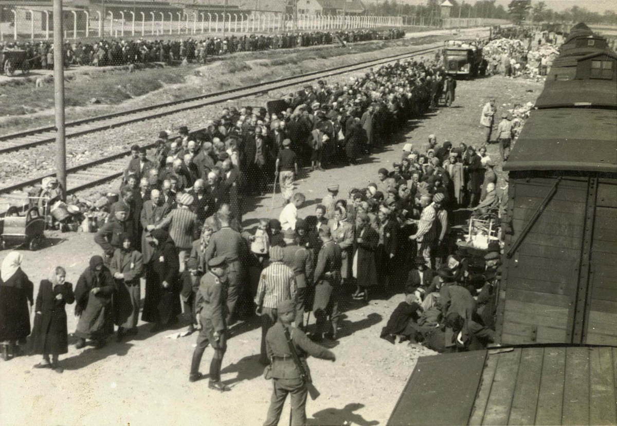 Birkenau, Poland, A selection on the platform, 27/05/1944. Photographs documenting the arrival process of Hungarian Jews from the Tet Ghetto in Auschwitz-Birkenau extermination camp during the second half of 1944.